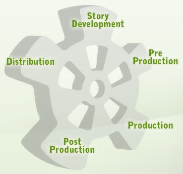 Fivesprocket screenshot